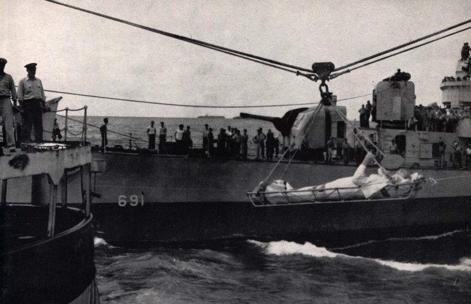 The U.S. Navy destroyer USS Mertz (DD-691) transfers a patient to the light cruiser USS San Juan (CL-54), circa in 1945. An Independence-class light aircraft carrier is visible on the horizon.